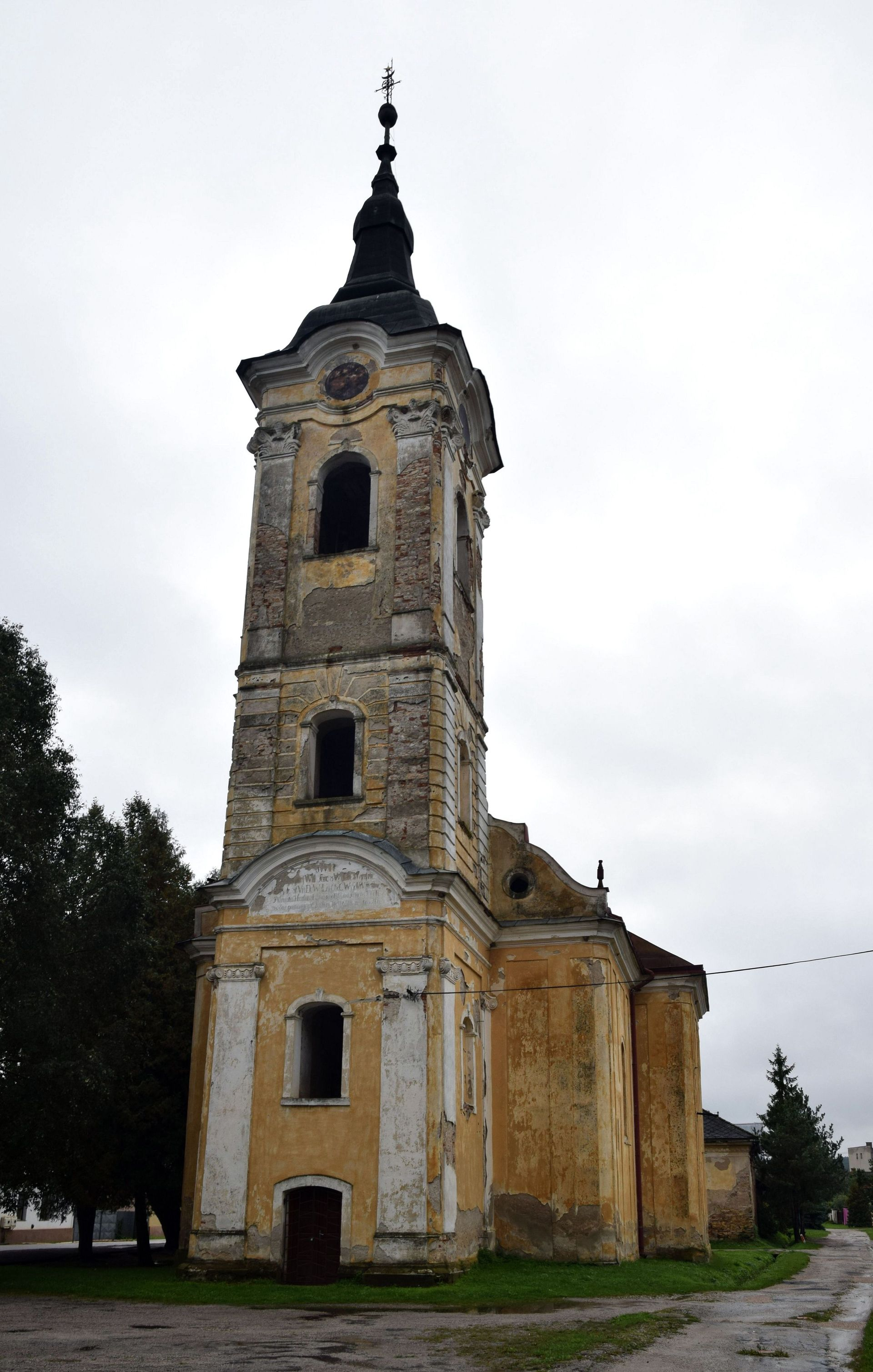 Šivetice, Protestant Church